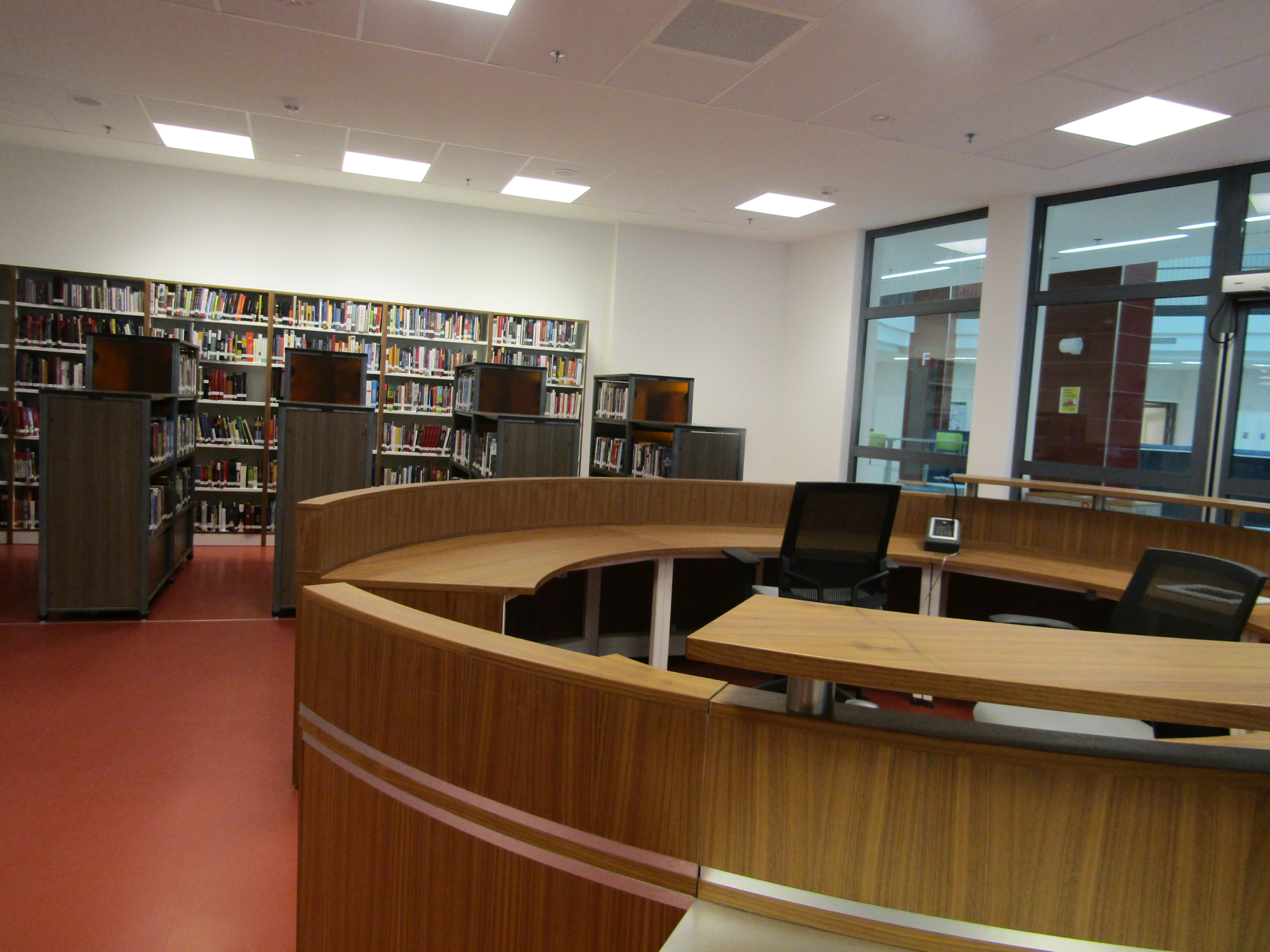 Kaiserslautern High School Library